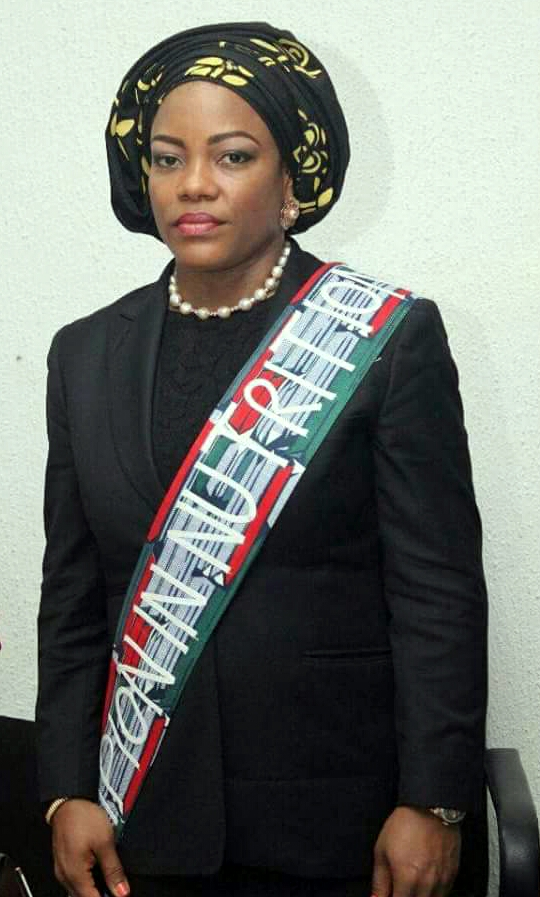 Justice E.S. Wike at the Zonal Nutrition Summit in September 2016